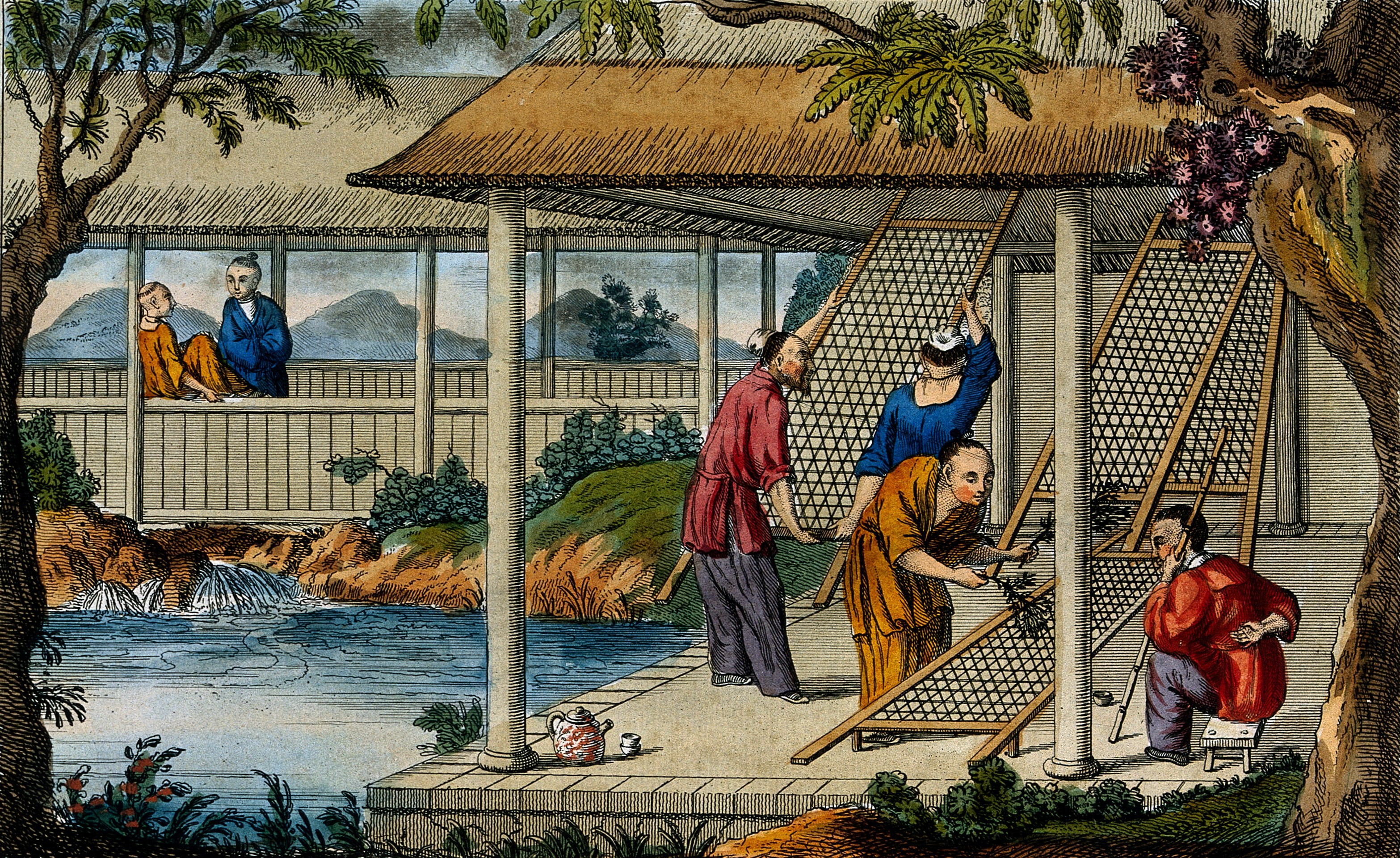 A Chinese tea plantation with workers cleaning the racks on which the leaves are laid. Coloured etching, early 19th century. Iconographic Collections